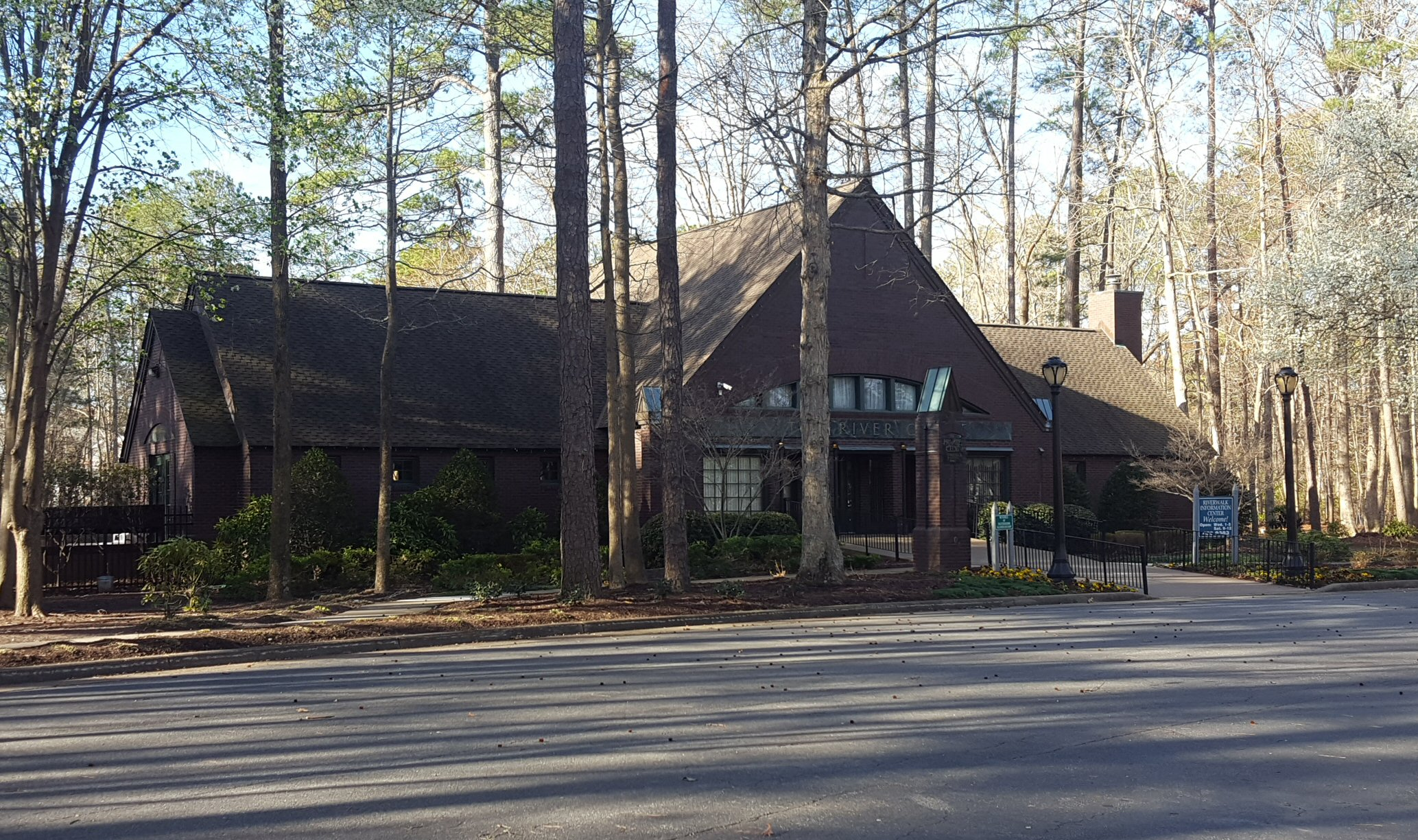 River Walk clubhouse on River Walk Parkway in Chesapeake, Virginia